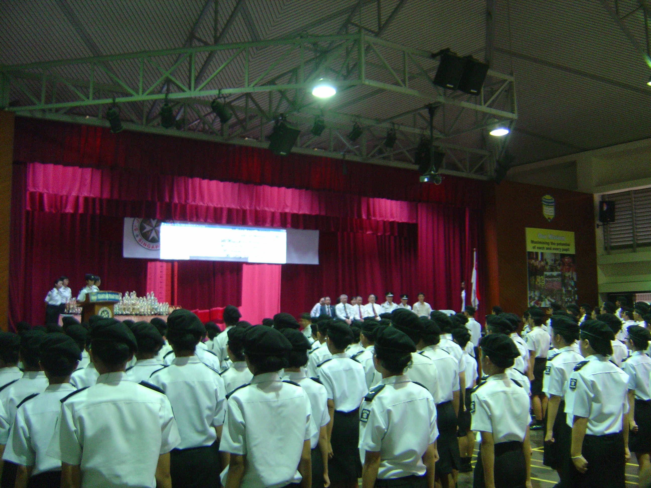 Students of the St John Ambulance Brigade of Singapore listening to the results of the Annual First Aid and Home Nursing Competition.